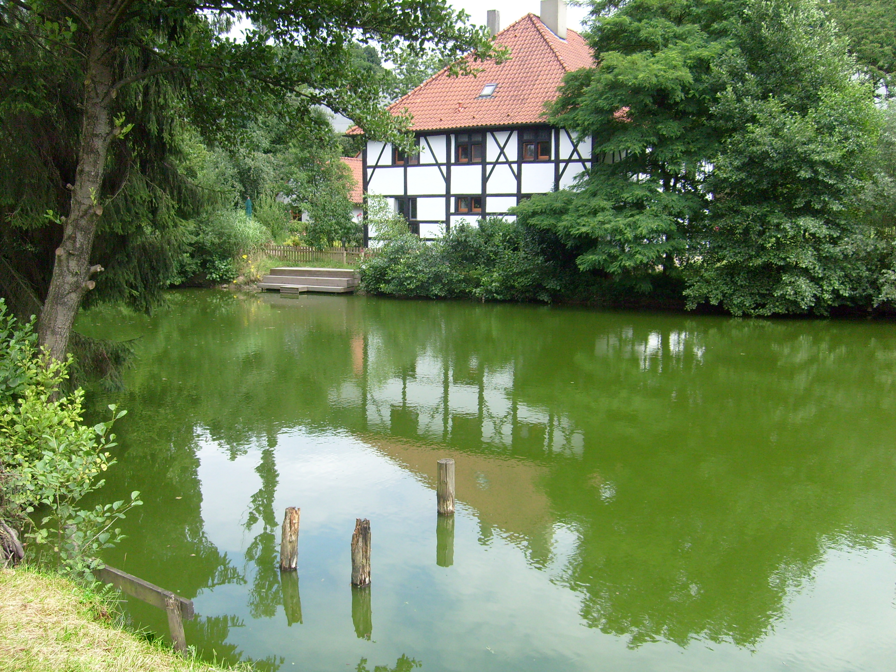 Bolthausen 4, a listed farmhouse in Wuppertal-Vohwinkel, built in the second half of the 16th century (It is not a good farmhouse)